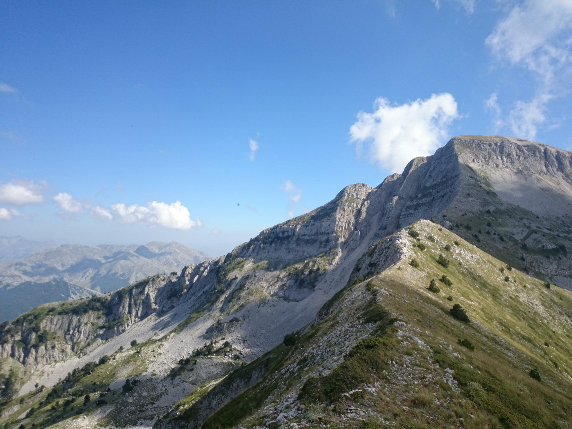 Tomorr mountain, close to the Southern peak